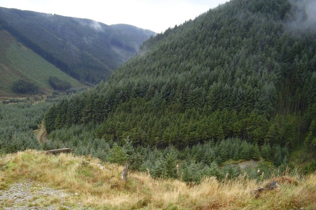 Deepest Wales Only accessible by bridleway now!